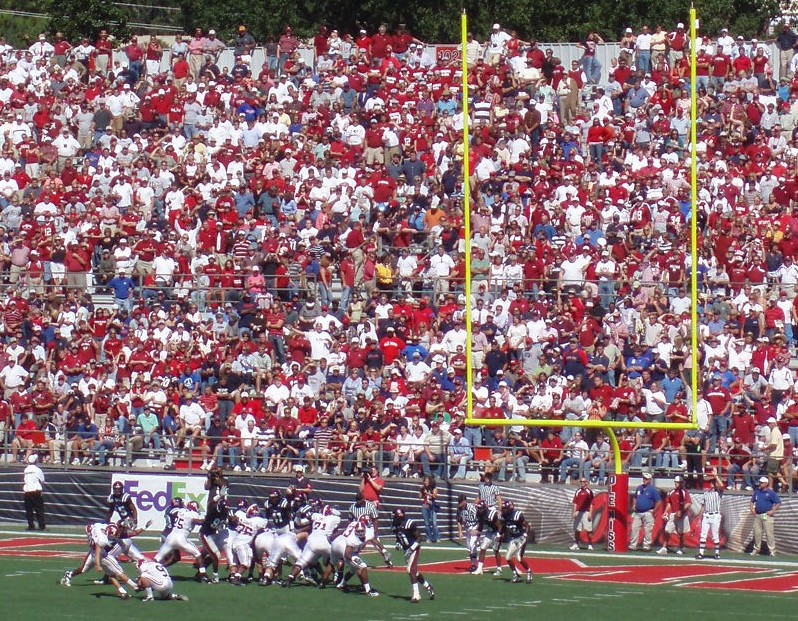 University of Alabama placekicker Leigh Tiffin kicks a point-after touchdown versus University of Mississippi.